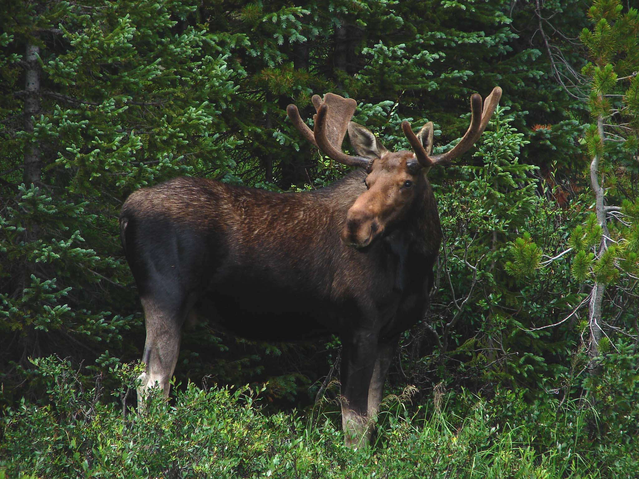 Moose in Rocky Mountain National Park. NPS/Karen Battle-Sanborn